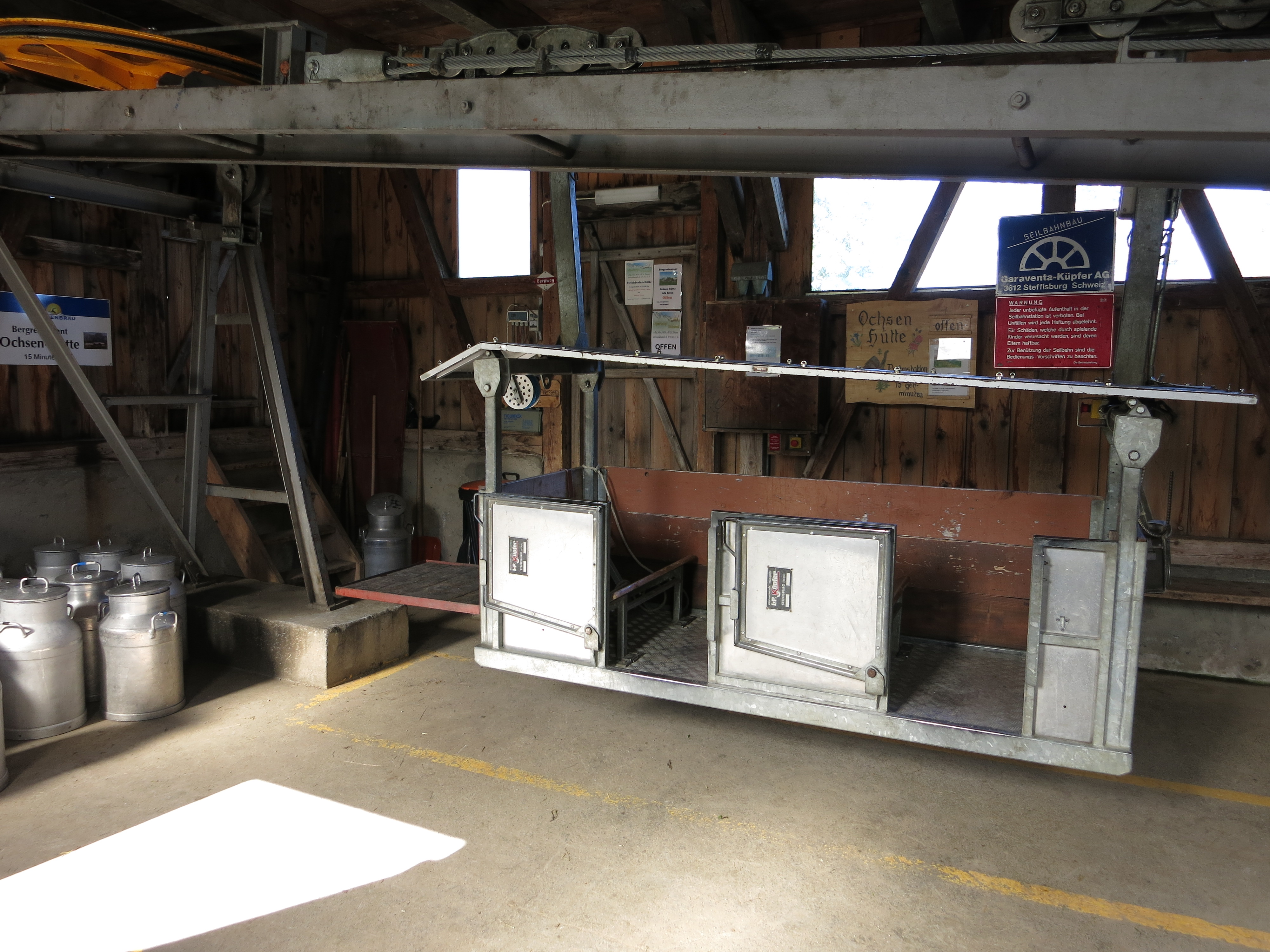 Cablecar Selunbahn in Switzerland: Top end